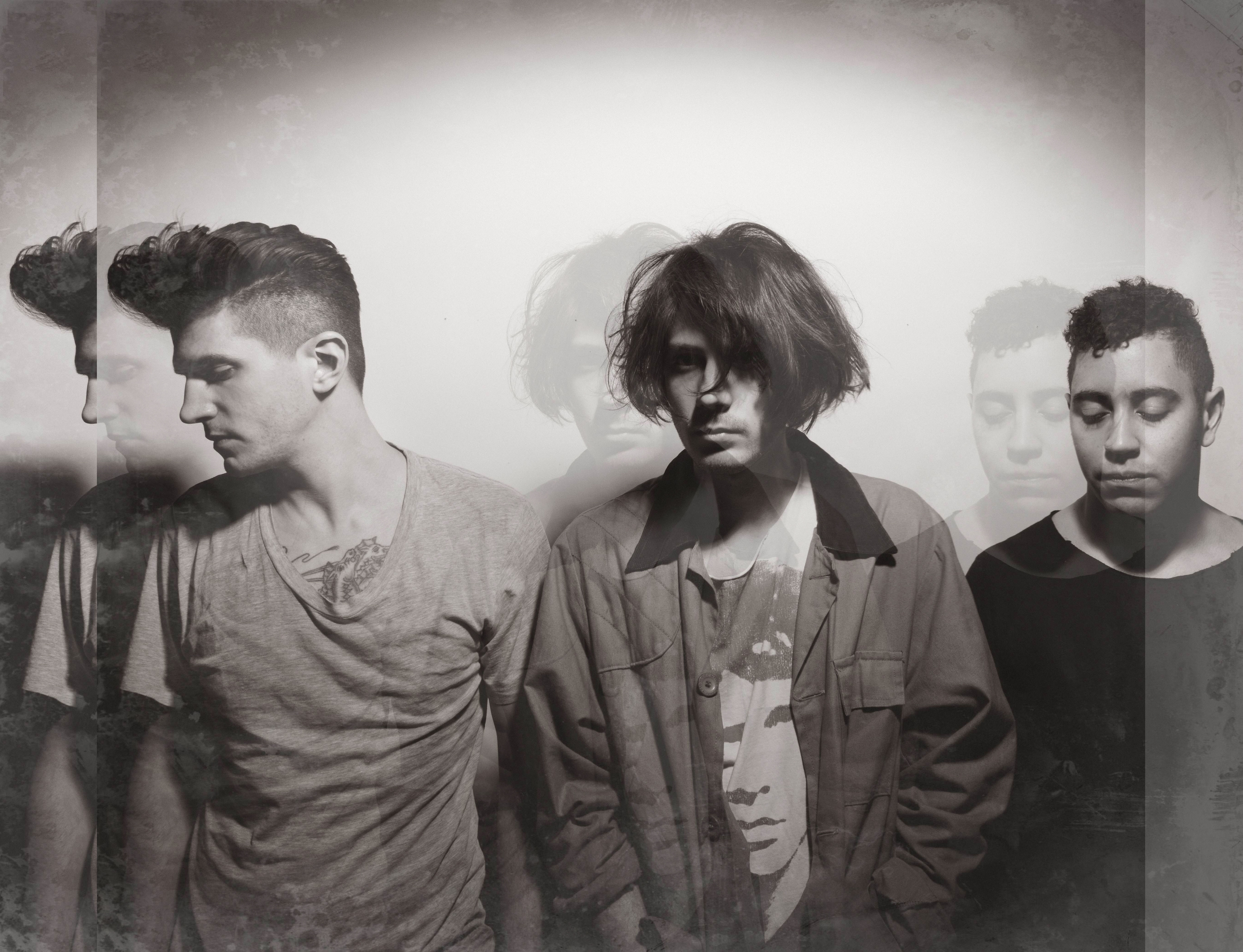 Born Cages 2015. Williamsburg, BK. Photo cred: Shervin Lainez